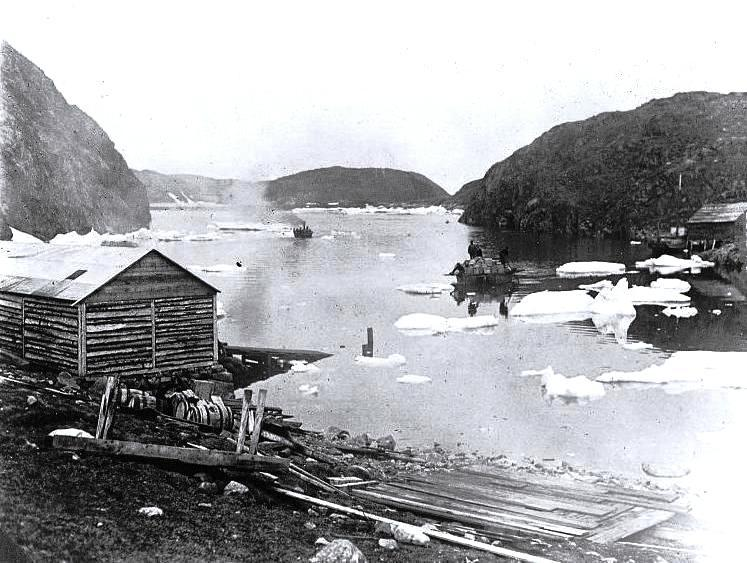 Photograph, Transporting supplies to the HBC post at Port Burwell, Labrador, NF, 1919, Captain George E. Mack, Silver salts on paper mounted on paper - Gelatin silver process - 8 x 11 cm